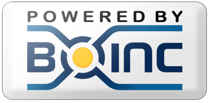 User-made "POWERED BY BOINC" logo.